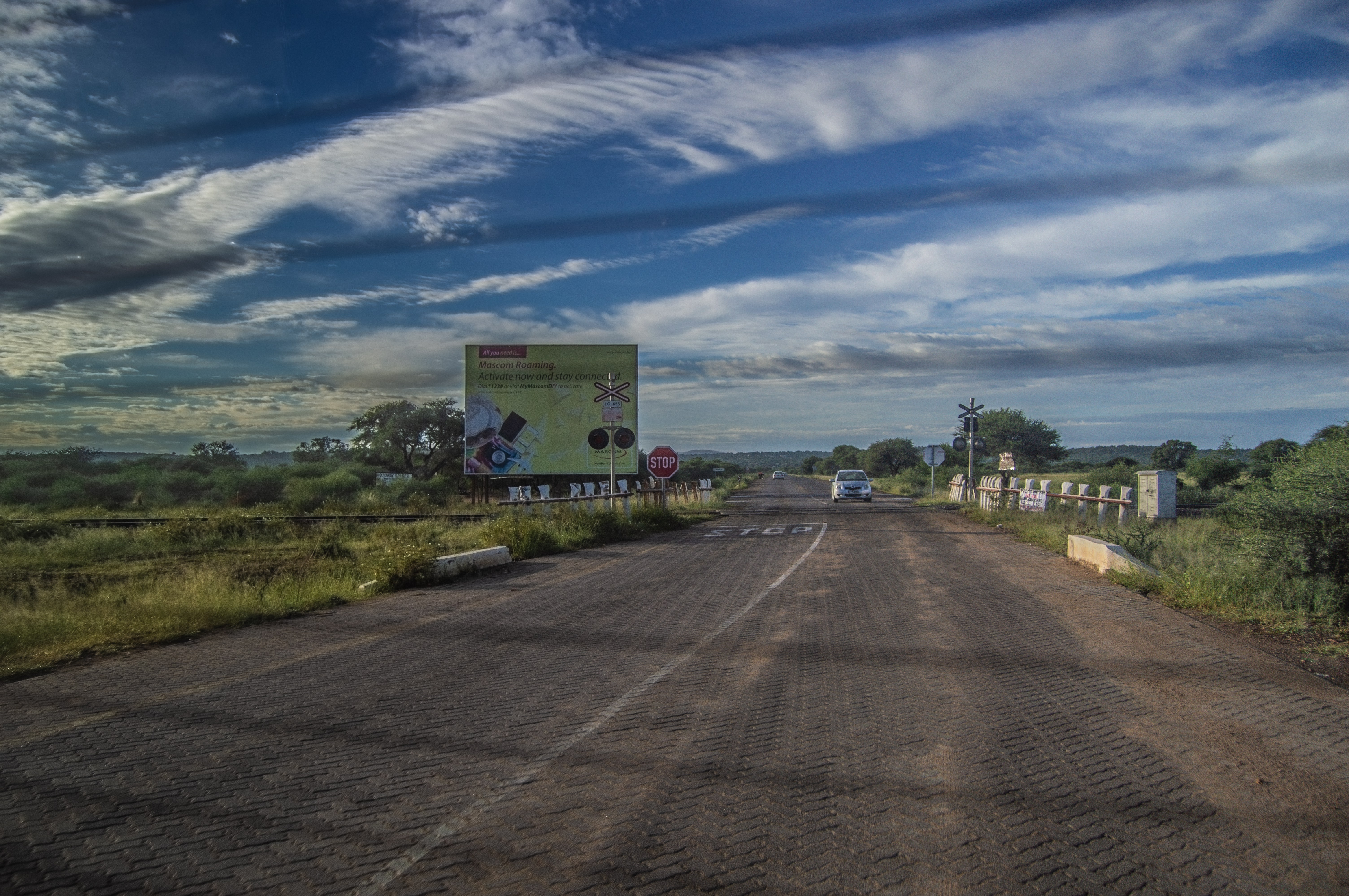 railway crossing at Taung-Ramotswa. This is an image with the theme "Africa on the Move or Transport" from: Botswana